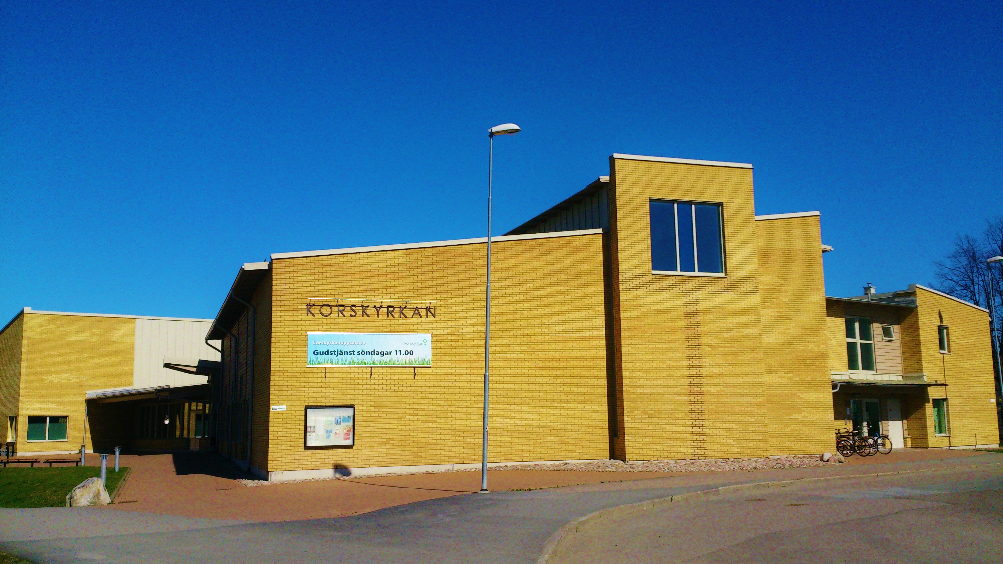 Korskyrkan in Uppsala on April 23, 2014